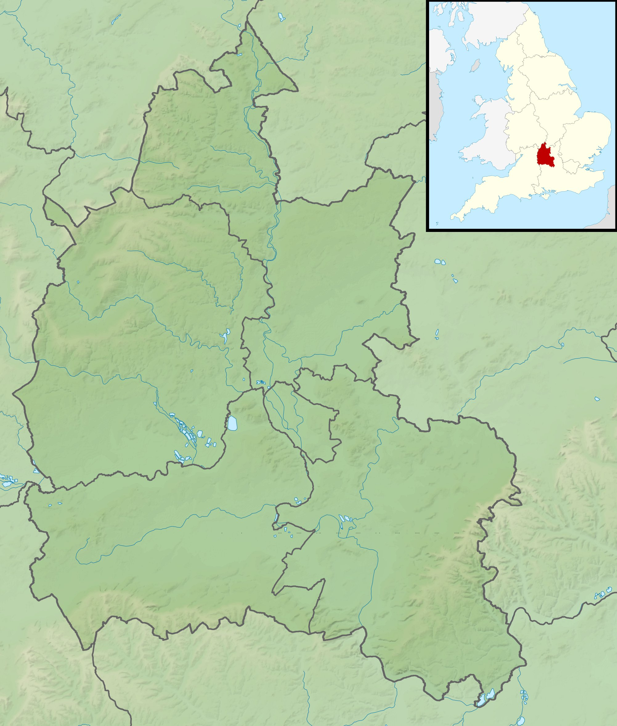 Relief map of Oxfordshire, UK. Equirectangular map projection on WGS 84 datum, with N/S stretched 160% Geographic limits: West: 1.74W East: 0.72W North: 52.19N South: 51.44N